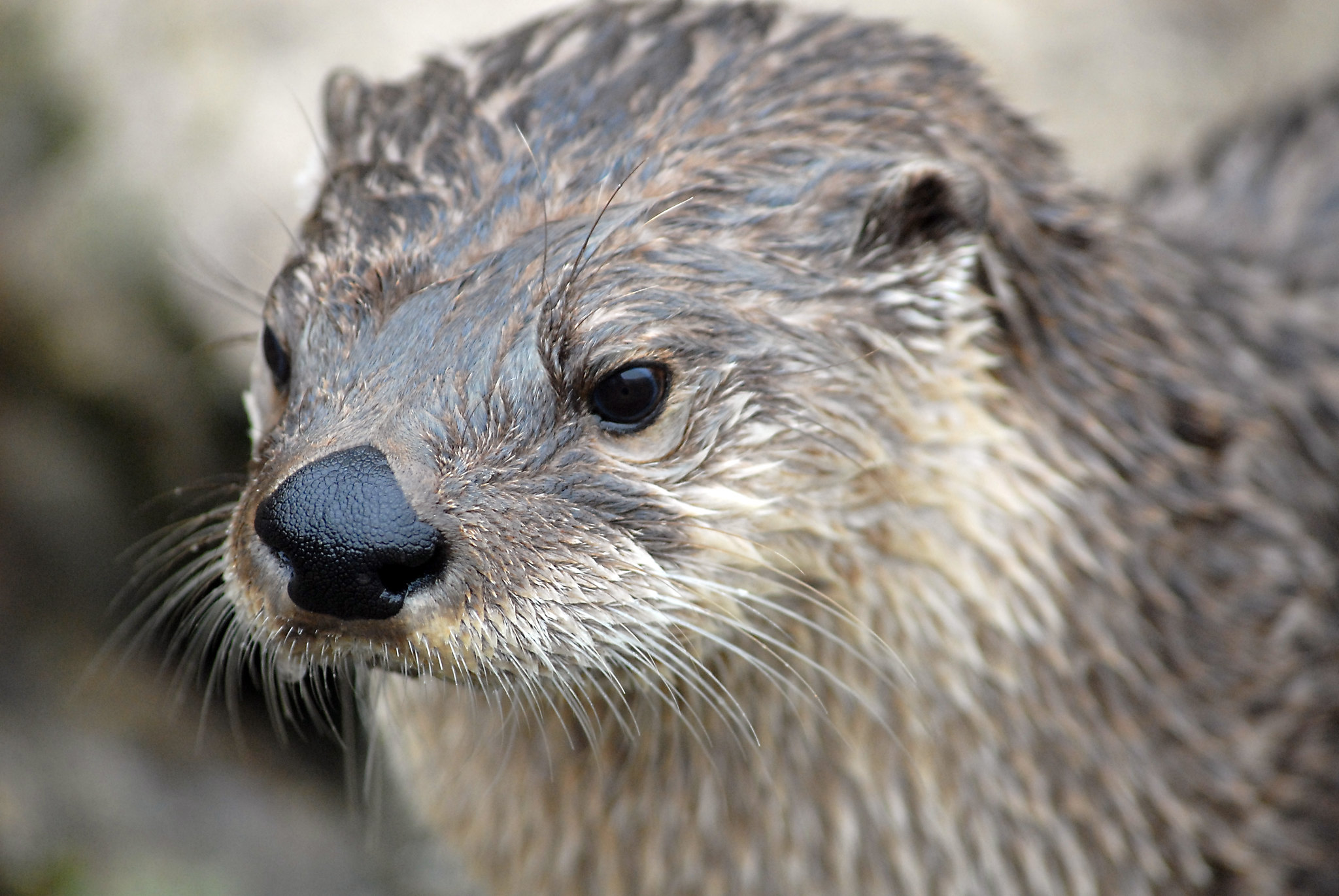 A trip to the River dart and these extremely photogenic Otters were happy to oblige! These Otters are simply mad! They loved the camera and were fairly trusting, I would not of wanted to get too close but they were certainly playful